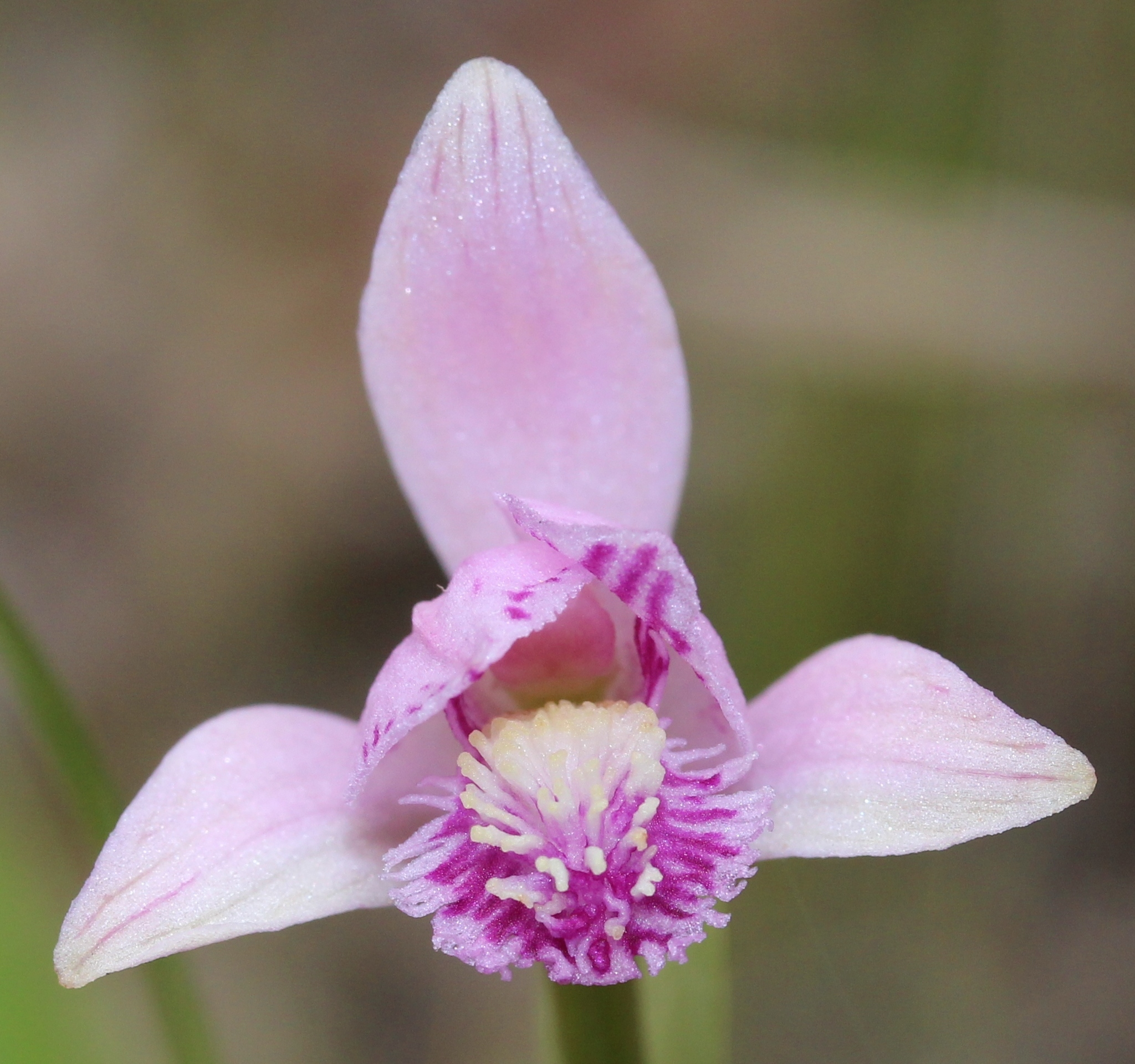 Flower of Pogonia japonica, in Aichi pref. ,Japan.